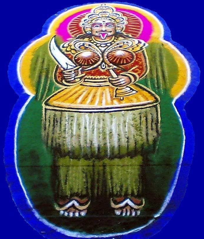 The image was created buy me and has no copyright